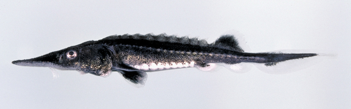 USFWS Headquarters Status: Endangered Photo credit: Noel Burkhead, USGS